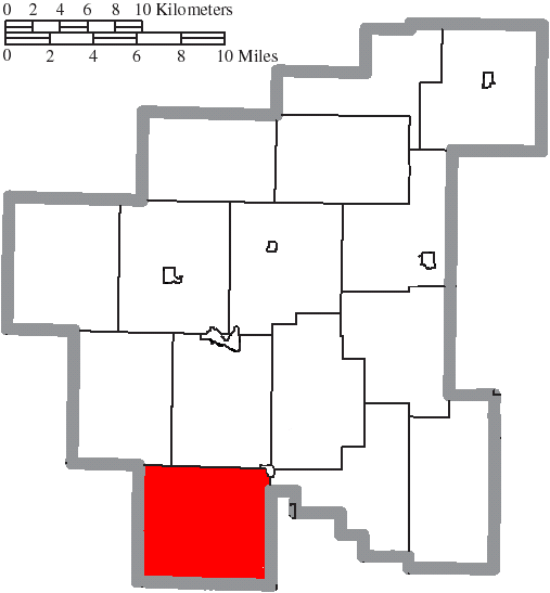 Map of the municipal and township boundaries of Noble County, Ohio, United States, as of the 2000 census, with the location of Jackson Township highlighted. Township borders are shown only in unincorporated areas in order to differentiate incorporated and unincorporated areas more clearly.